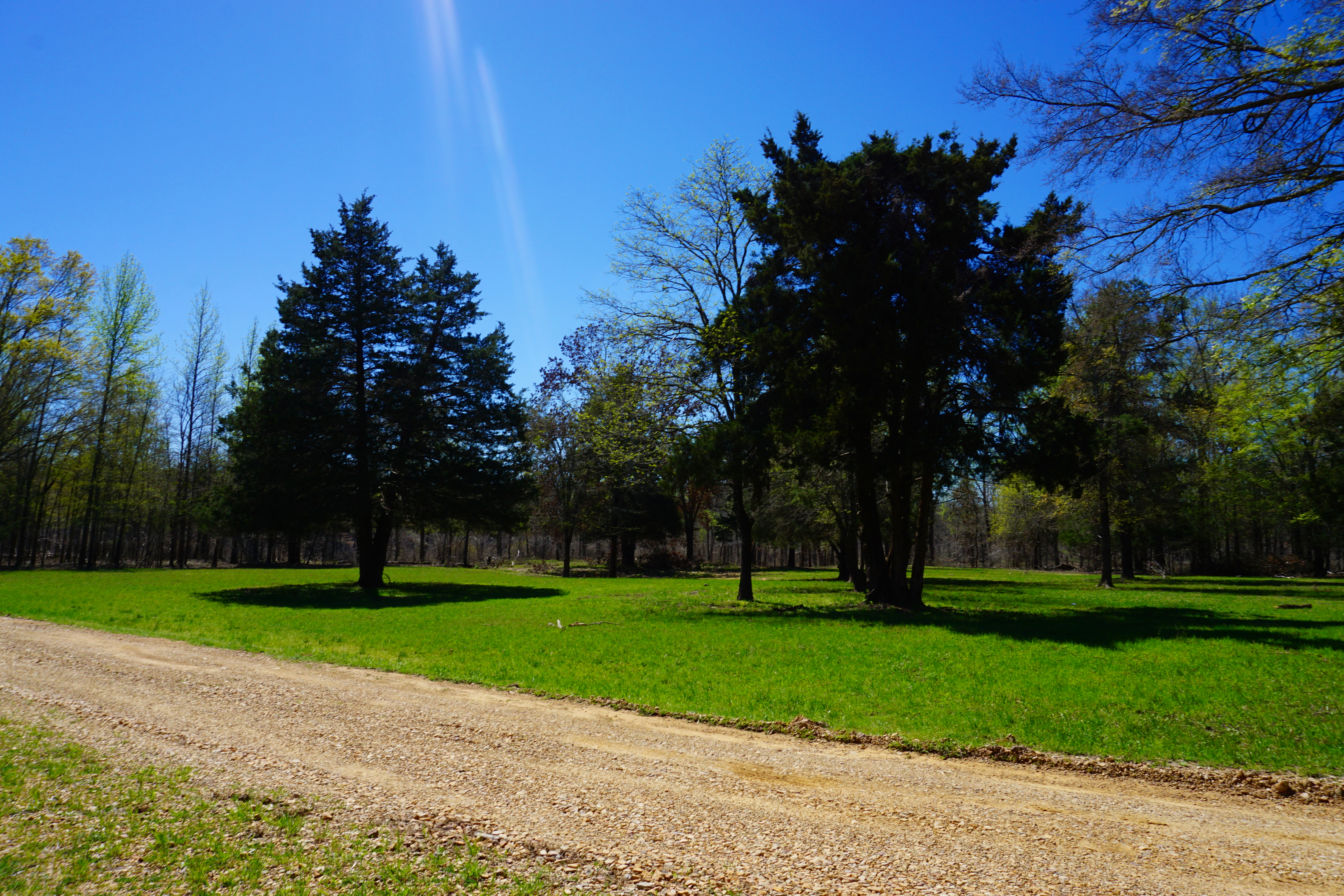 Hugo Lake State Park in Choctaw County, Oklahoma (United States).